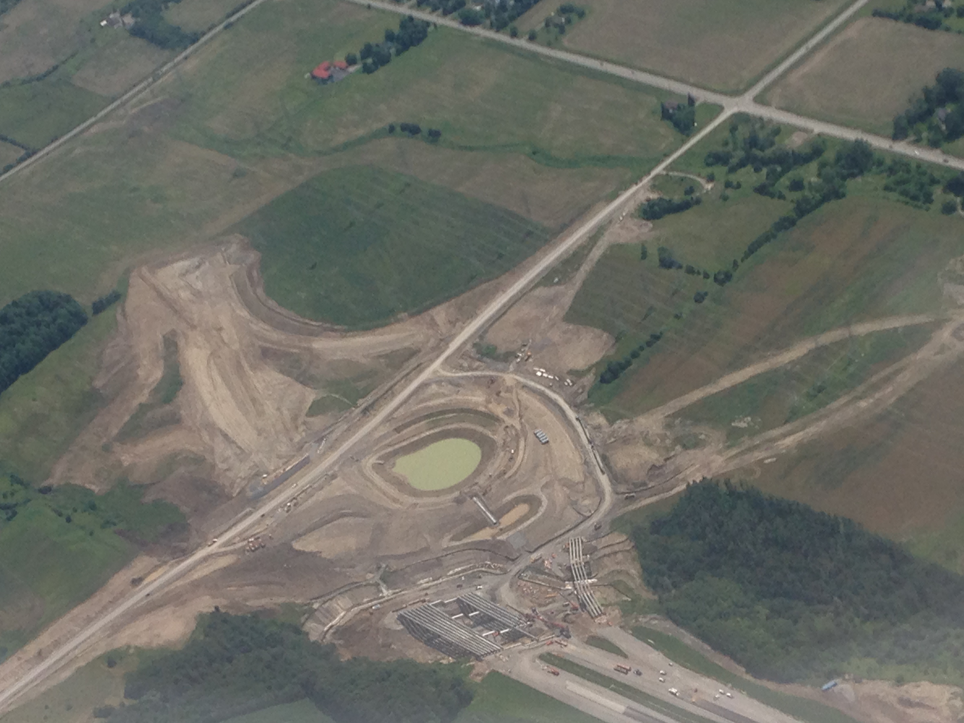 Construction of Ontario Highway 407 overpass and highway exit at Harmony Road, in Durham Region. Facing southeast.